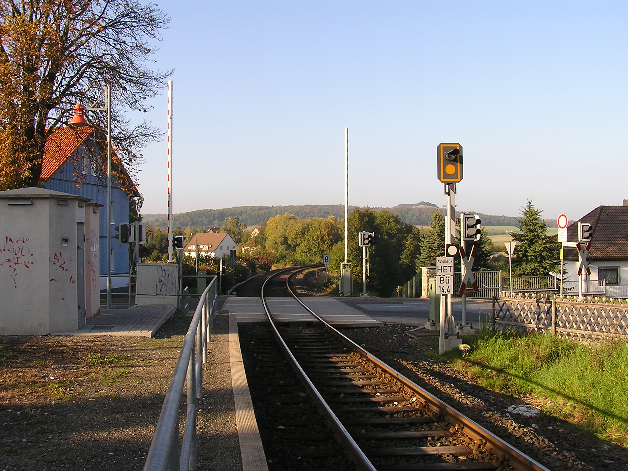 Level crossing at the Taunusbahn in Neu-Anspach-Hausen